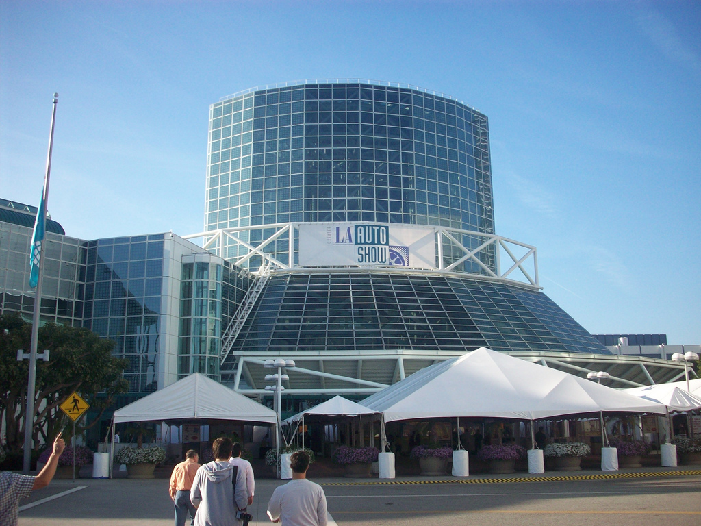 The Los Angeles Convention Center — in southern Downtown Los Angeles, California. During the 2008 Greater Los Angeles Auto Show.